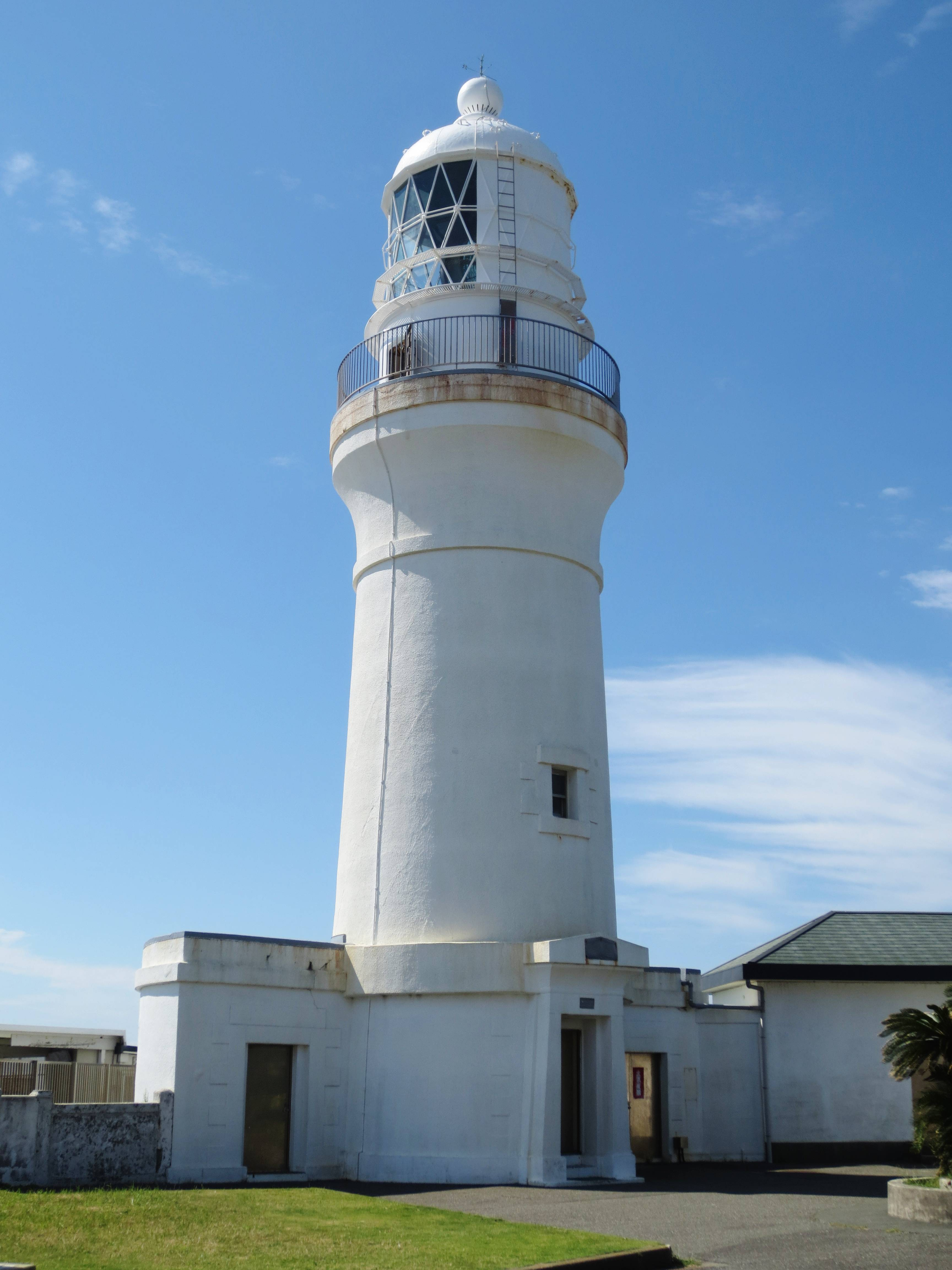 Omaezaki Lighthouse.